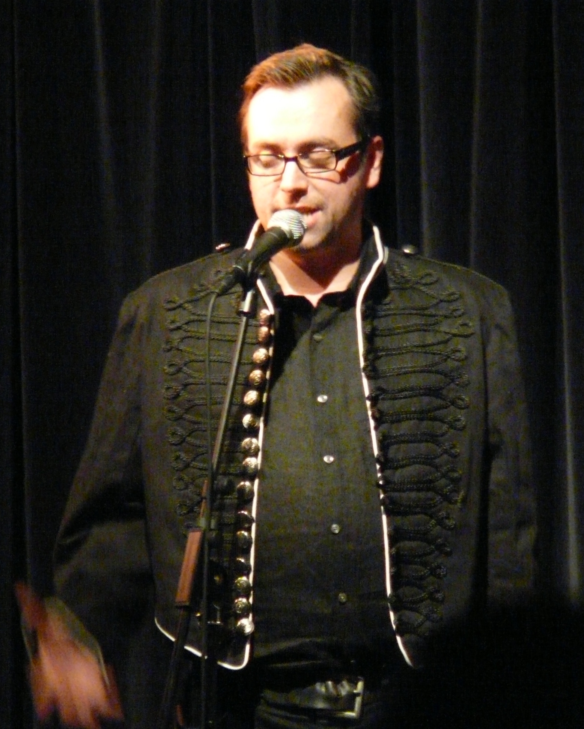 The Last 'A.i.O.t.m', Leicester Square Theatre, Dan Tetsell